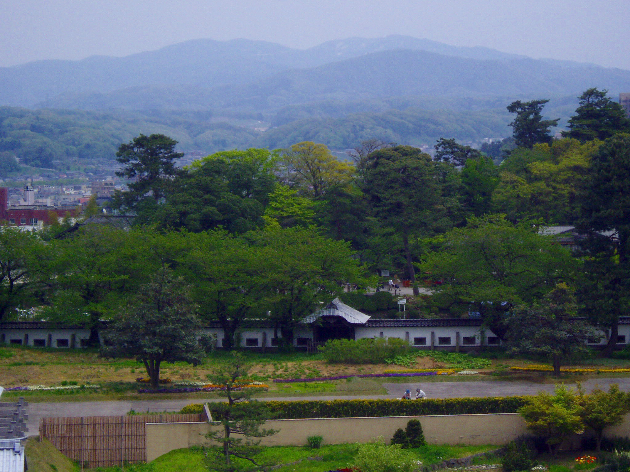 Mt. Iwozen (939m) from Kanazawa Castle, Japan